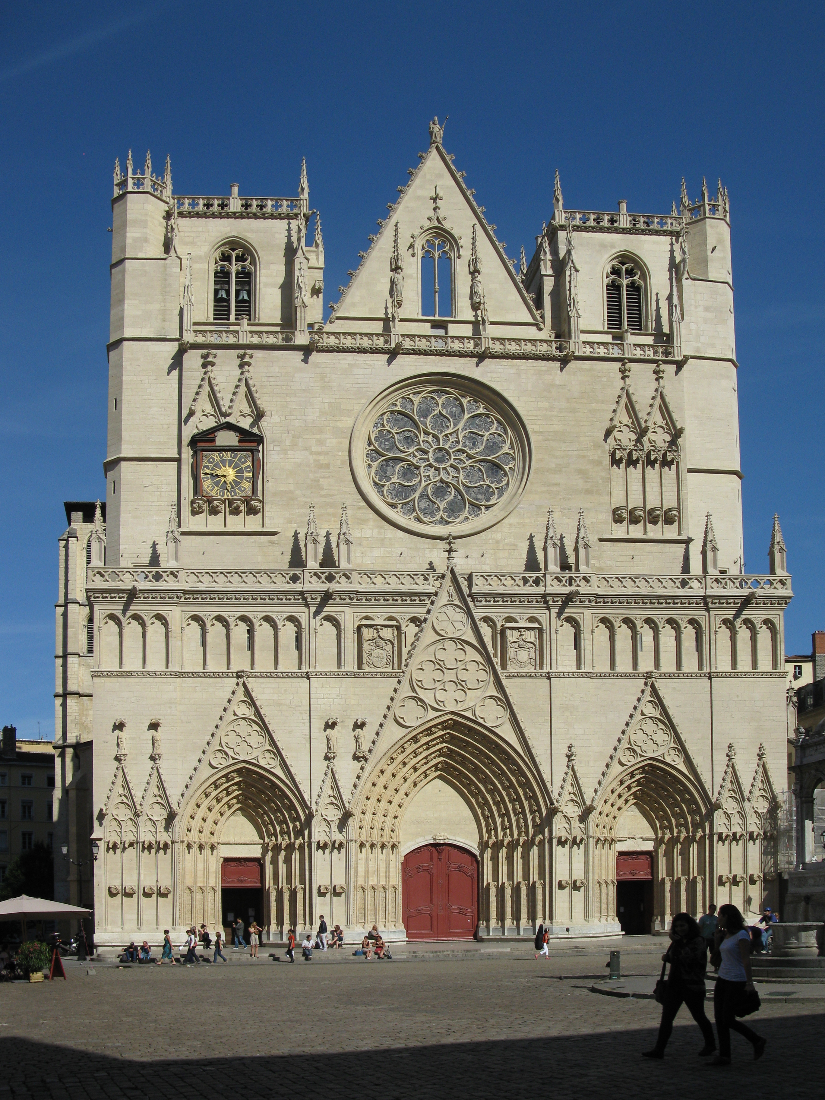 Lyon Cathedral